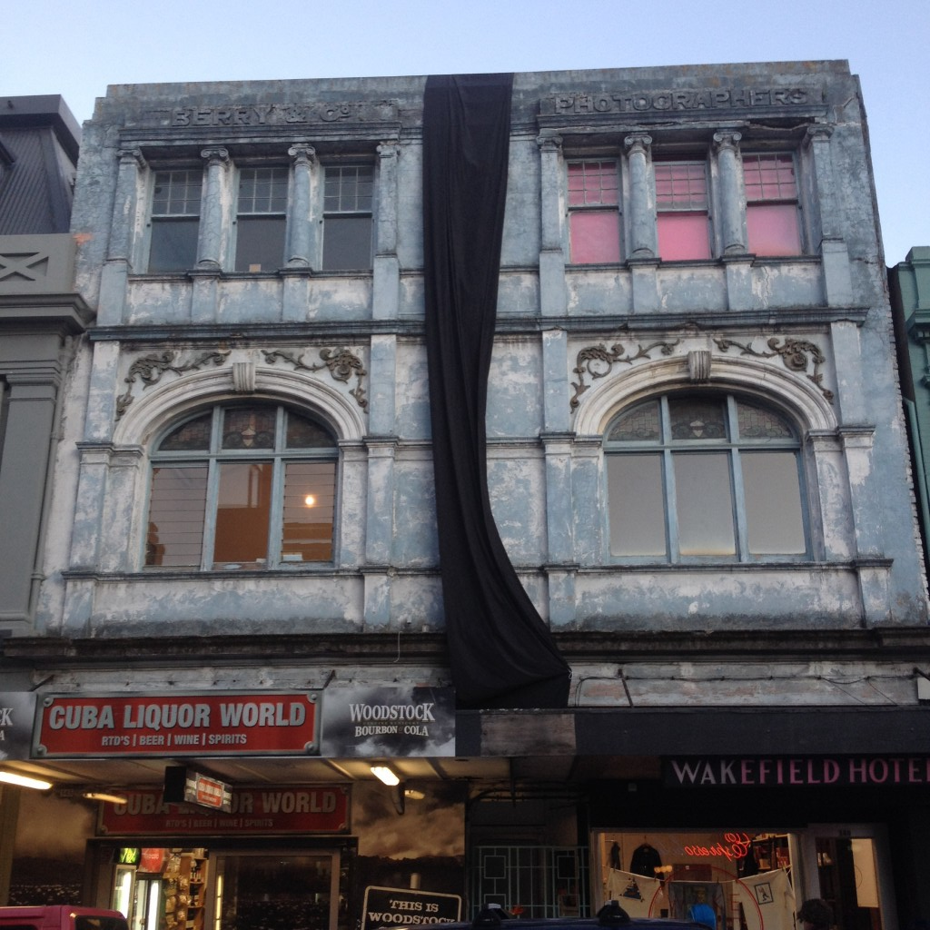 Image of the front of the building housing the Peter McLeavey Gallery on Cuba Street, Wellington with a black mourning banner for the passing of Peter McLeavey.